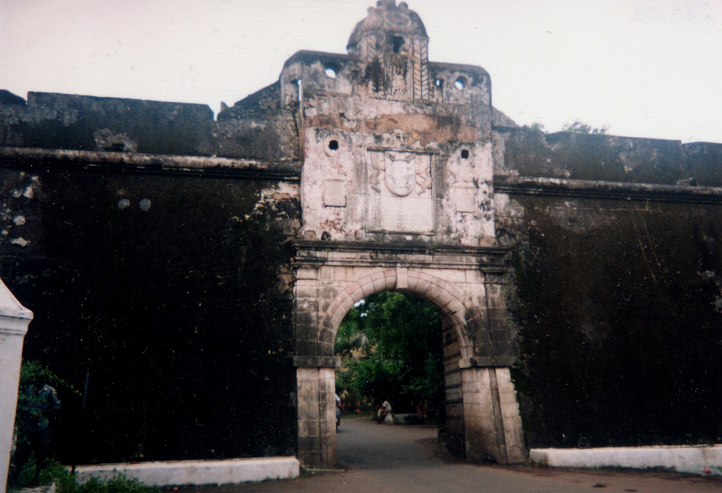 Daman - main gate to the Nani Daman Fort